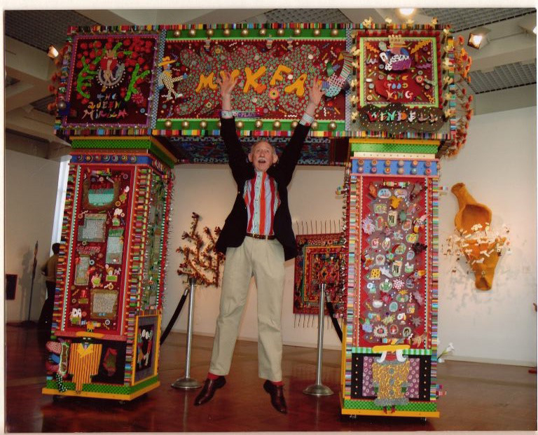 Ronald Markman jumping in front of his sculpture, Mukfa Gate